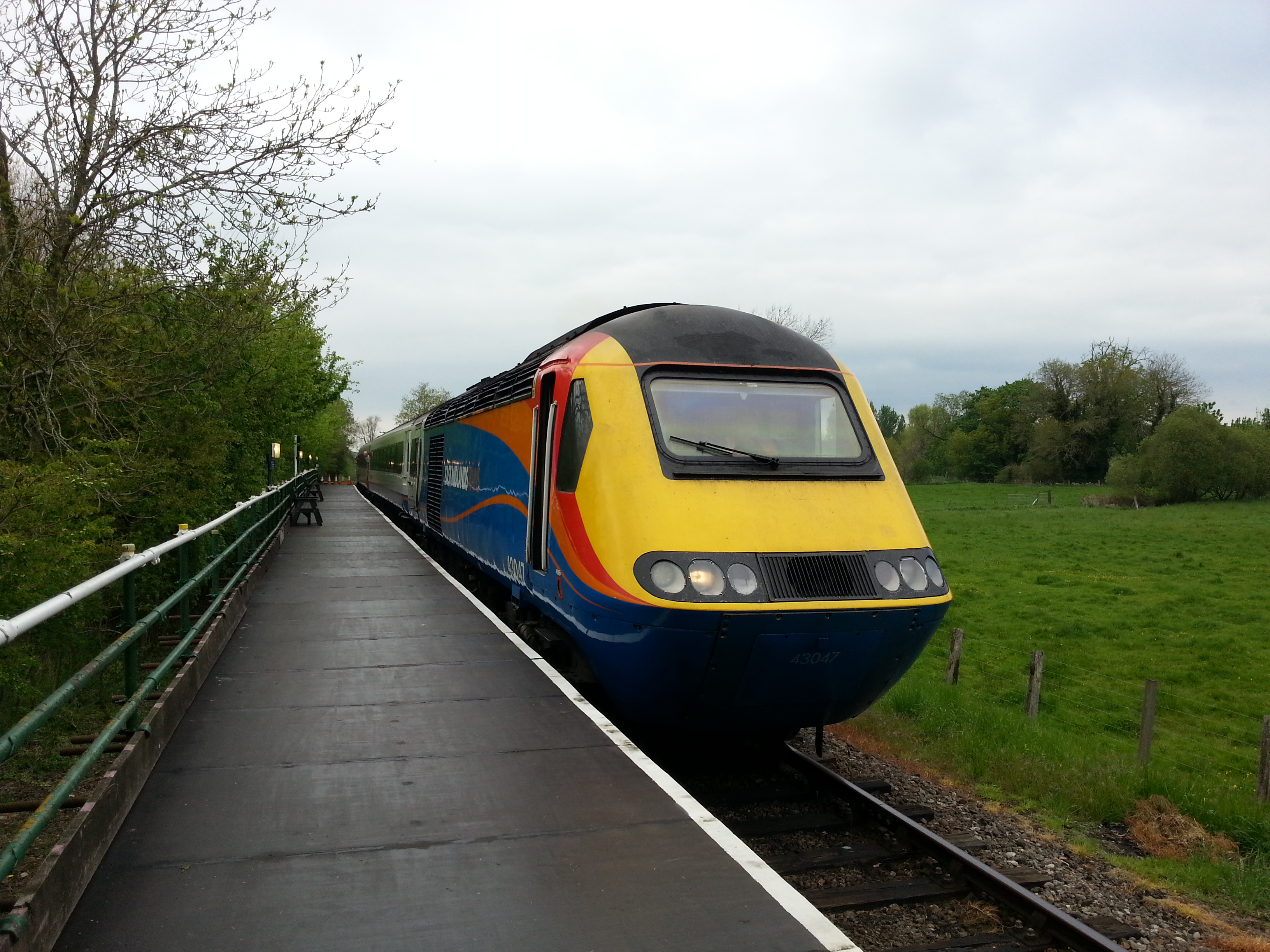 HST at Wymondham Abbey MNR 18 May 2013 UK Railtours/Eas Midland Trains 43047/43055 London St. Pancras via Leicester, Peterborough, Ely and Wymondham to Dereham (and then north of Hoe Level Crossing).